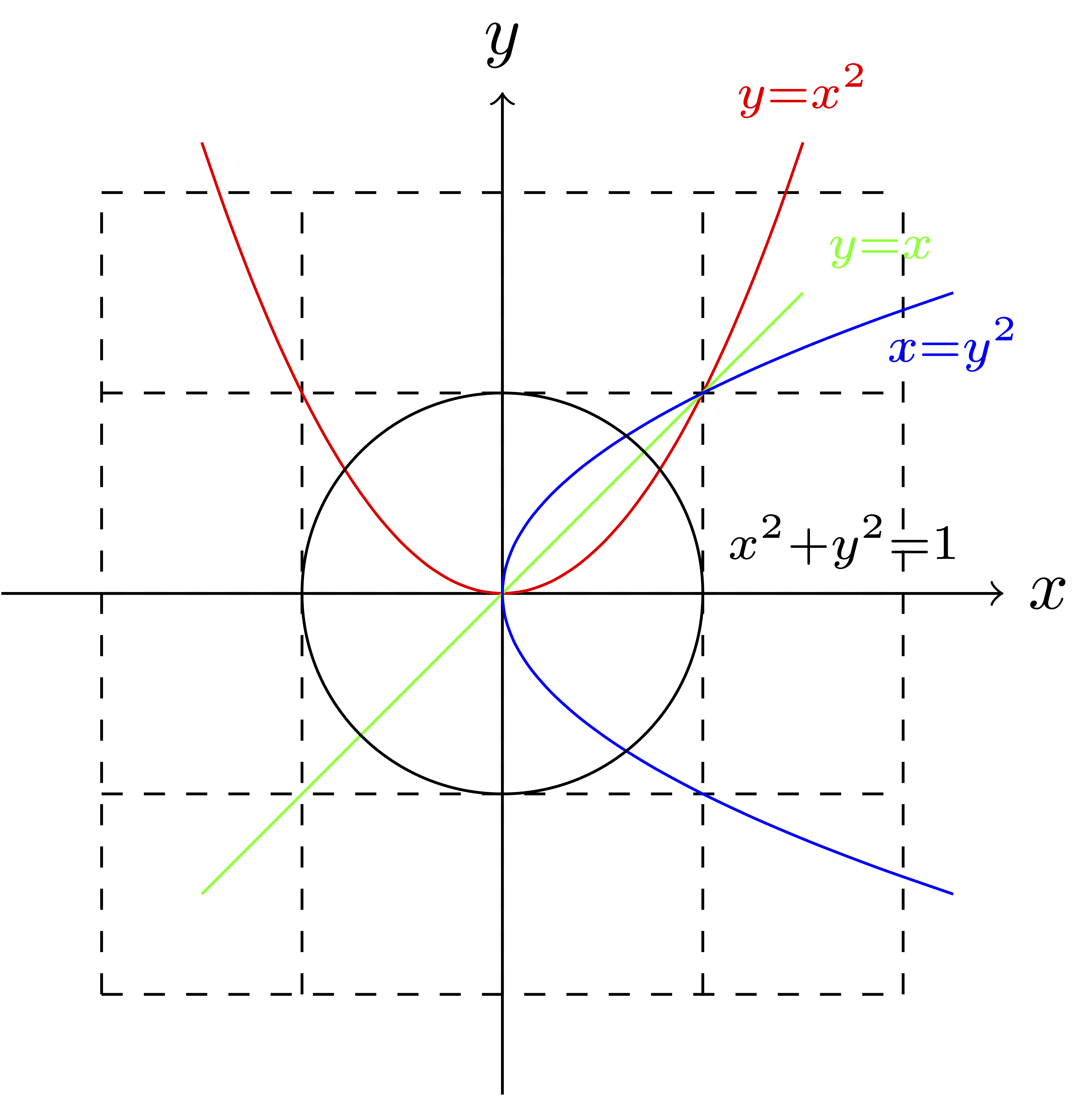 A plot of the four types of binary relations: one-to-one (in green), one-to-many (in blue), many-to-one (in red), many-to-many (in black).